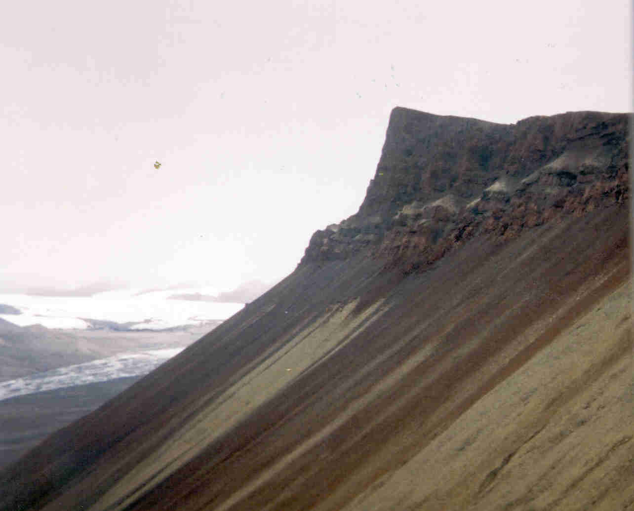 A basaltic cliff of the Strand Fiord Formation on Axel Heiberg Island